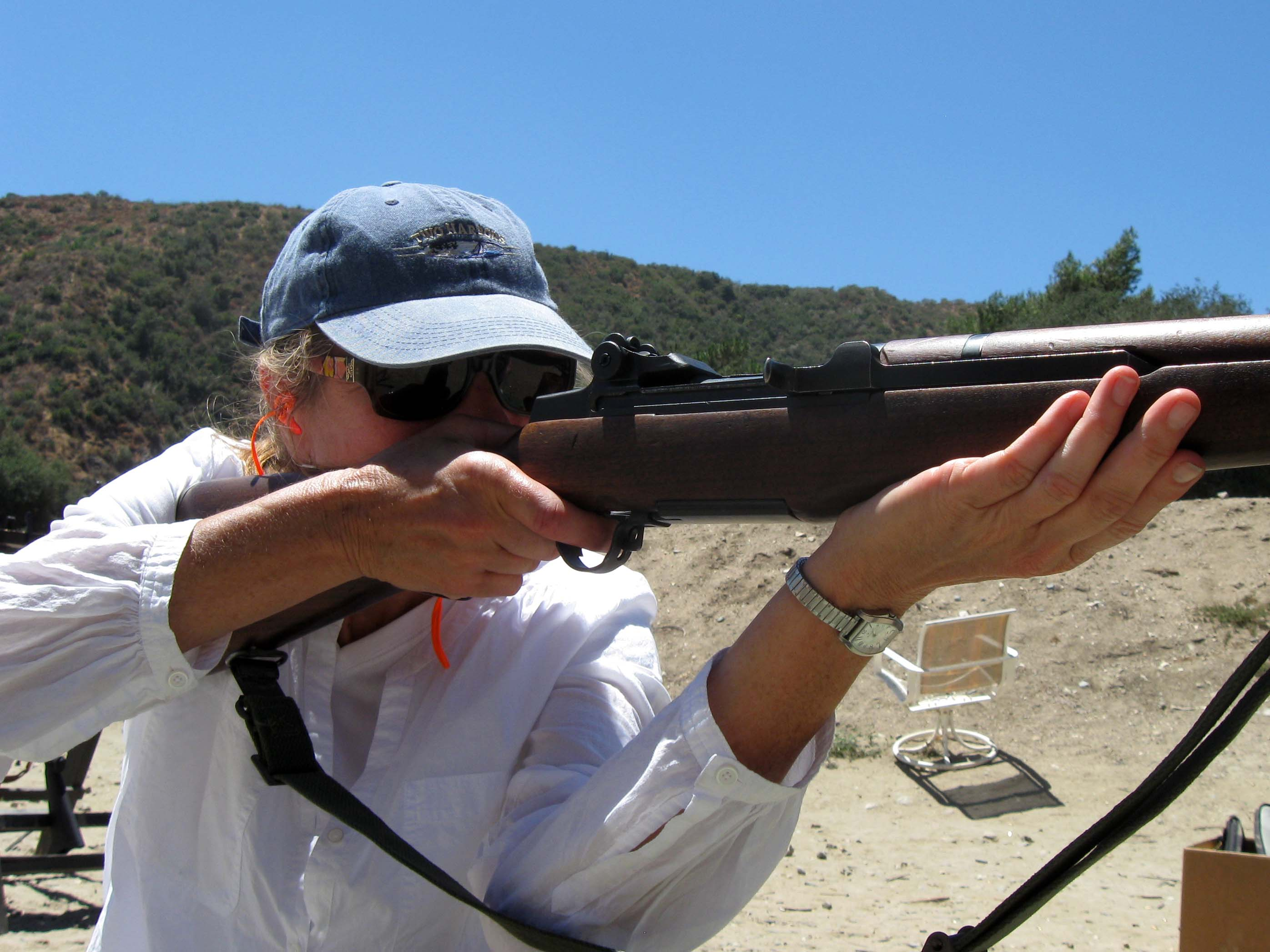 The real "America's Rifle."